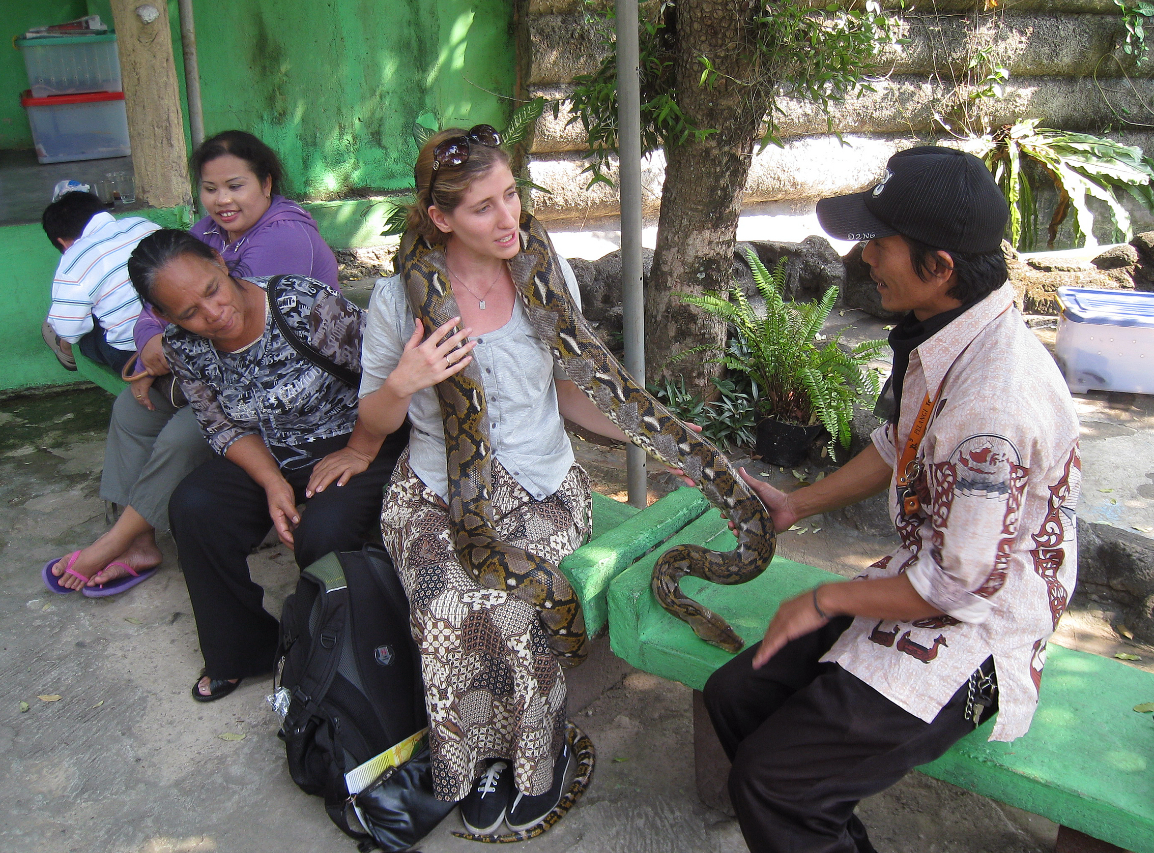 Visitors accompanied with the keeper are allowed to pet and took photograph with python reticulatus in Reptile Petting Zoo, Taman Mini Indonesia Indah Reptile Park, Jakarta, Indonesia.